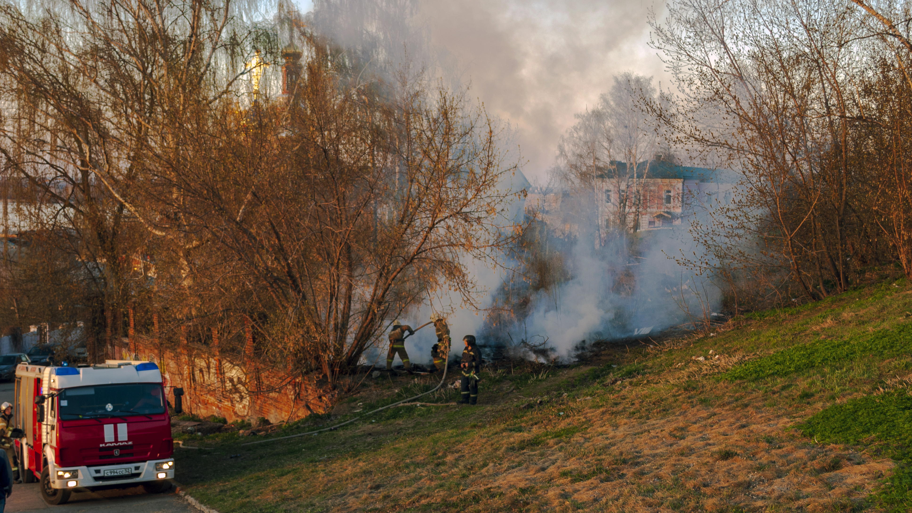 Fire near the Stroganov Church. Nizhny Novgorod